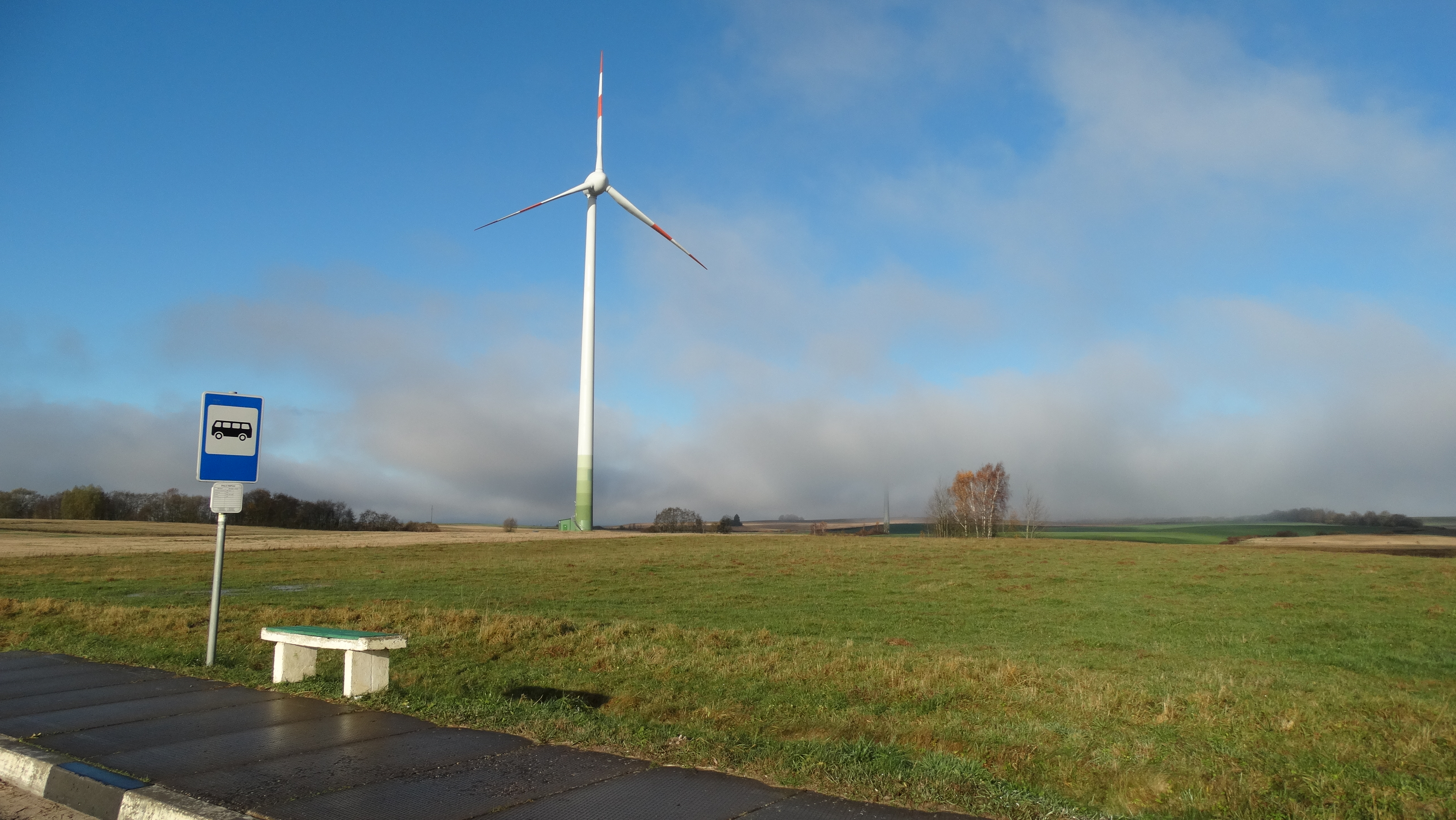 Palumpiai, Pagėgiai Municipality, Lithuania